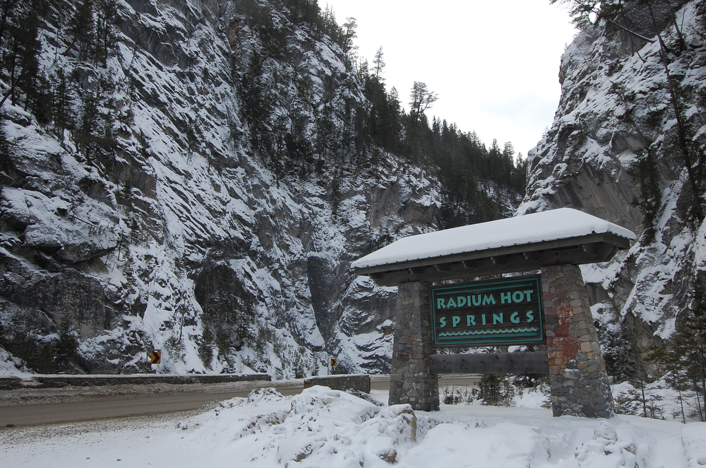 Welcome sign for Radium Hot Springs